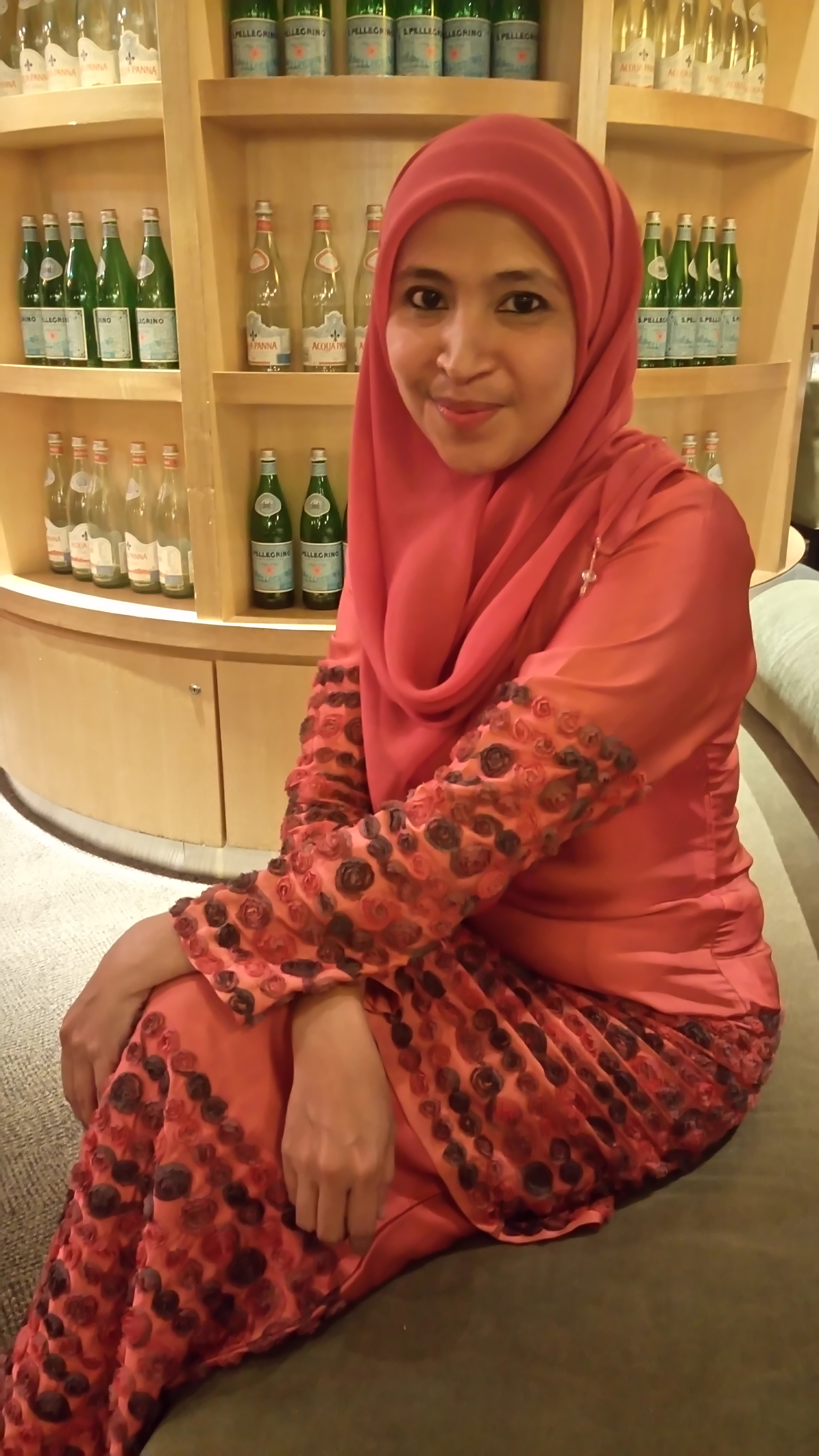 Rozi Abdul Razak (Rozi Sang Dewi) during Beraya Bersama Dato' Siti Nurhaliza at The Westin, Bukit Bintang on 5 August 2016. She is well-known as a songwriter and as a personal assistant to Siti Nurhaliza.